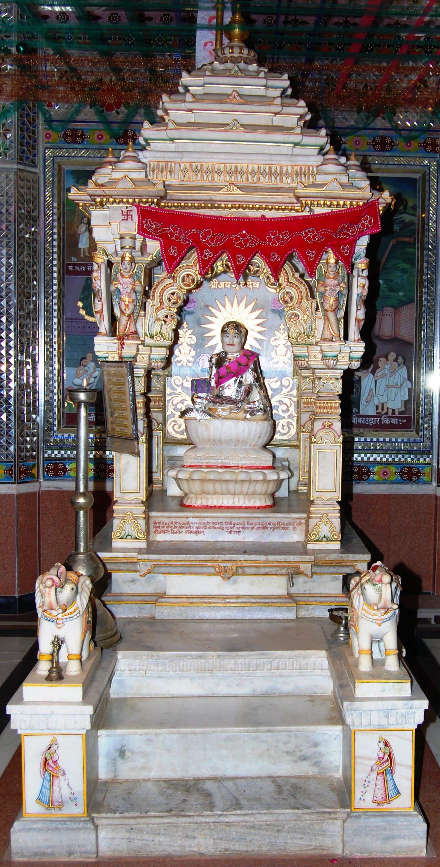 Beatiful Jain Temple of Acharya Rajendrasuri with glass work at Santhu, Bagra(Marwar),Jalore, Rajasthan, India.